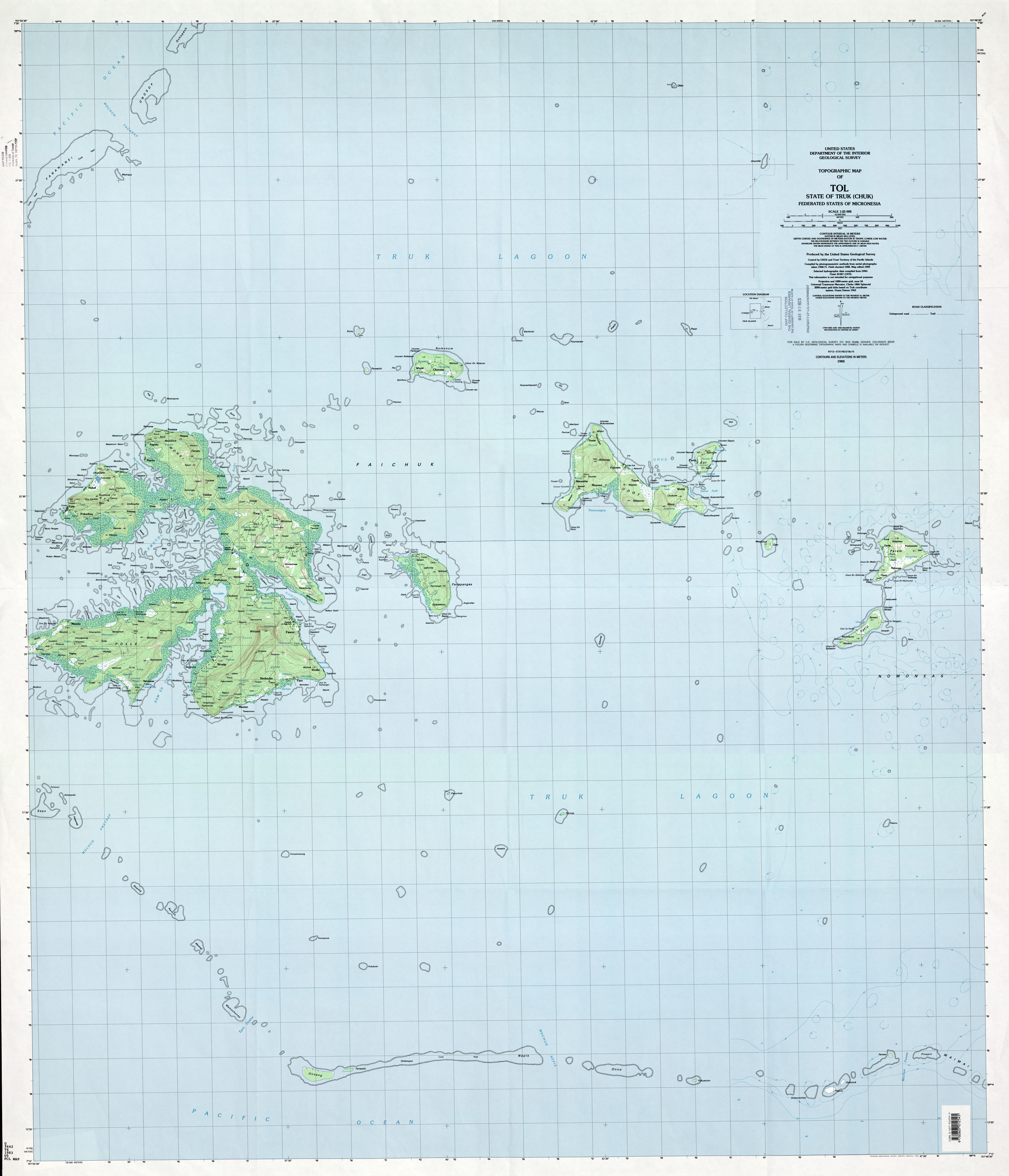 Topographic map sheet 1:25,000 of Tol and surroundings, Chuuk Lagoon, Chuuk State, Federated States of Micronesia, Pacific Ocean